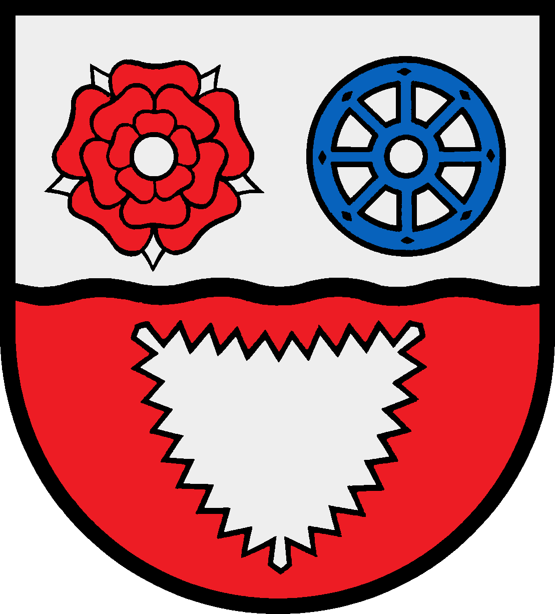 Coat of arms of the municipality Prisdorf in Schleswig-Holstein, Germany.